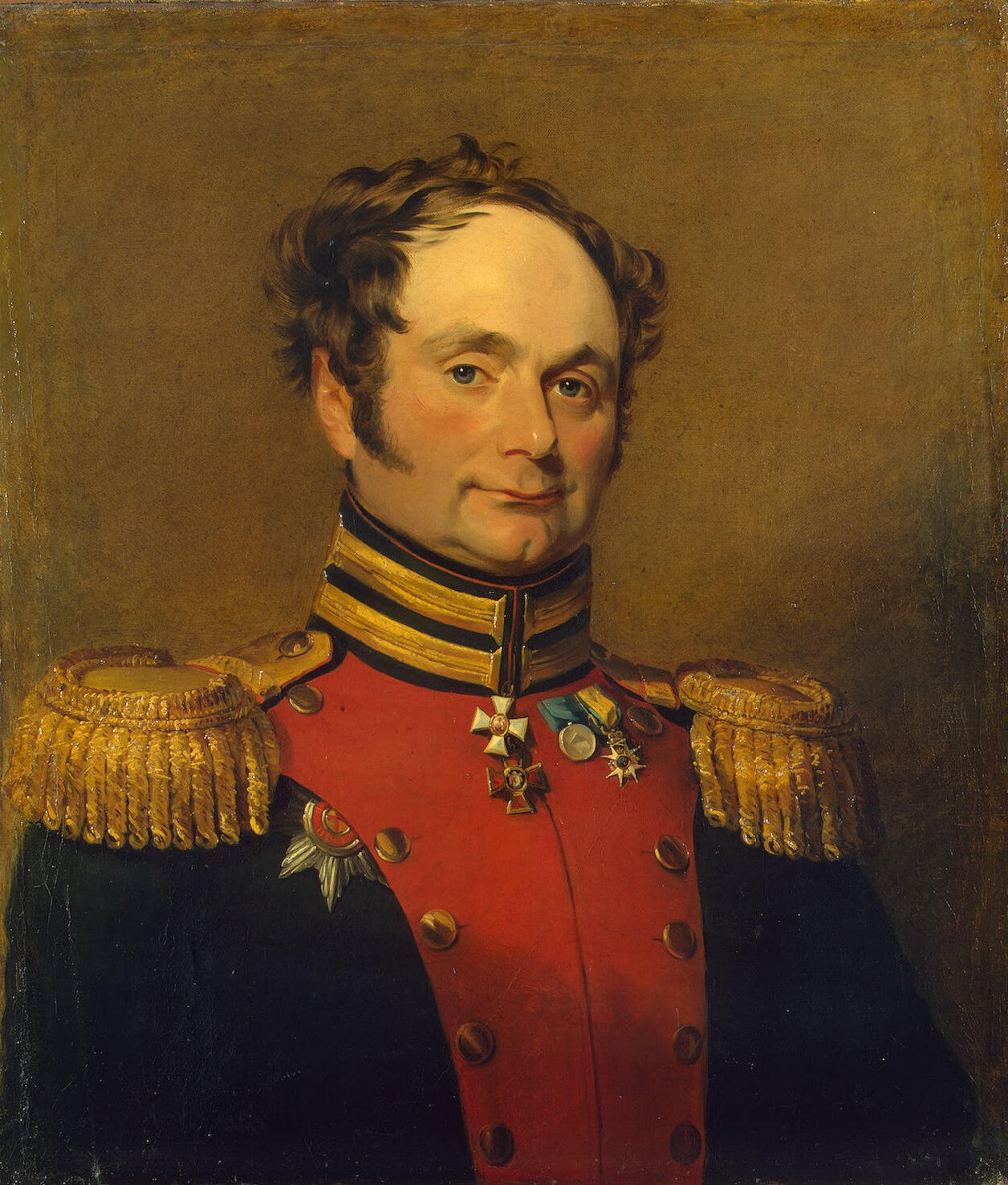 Portrait of Adam Bistrom (Адам Иванович Бистром, 1774-1828), a Russian General.